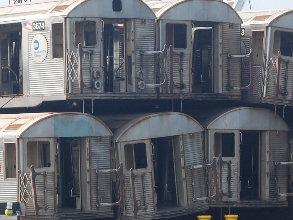 NYC July 8th-18th